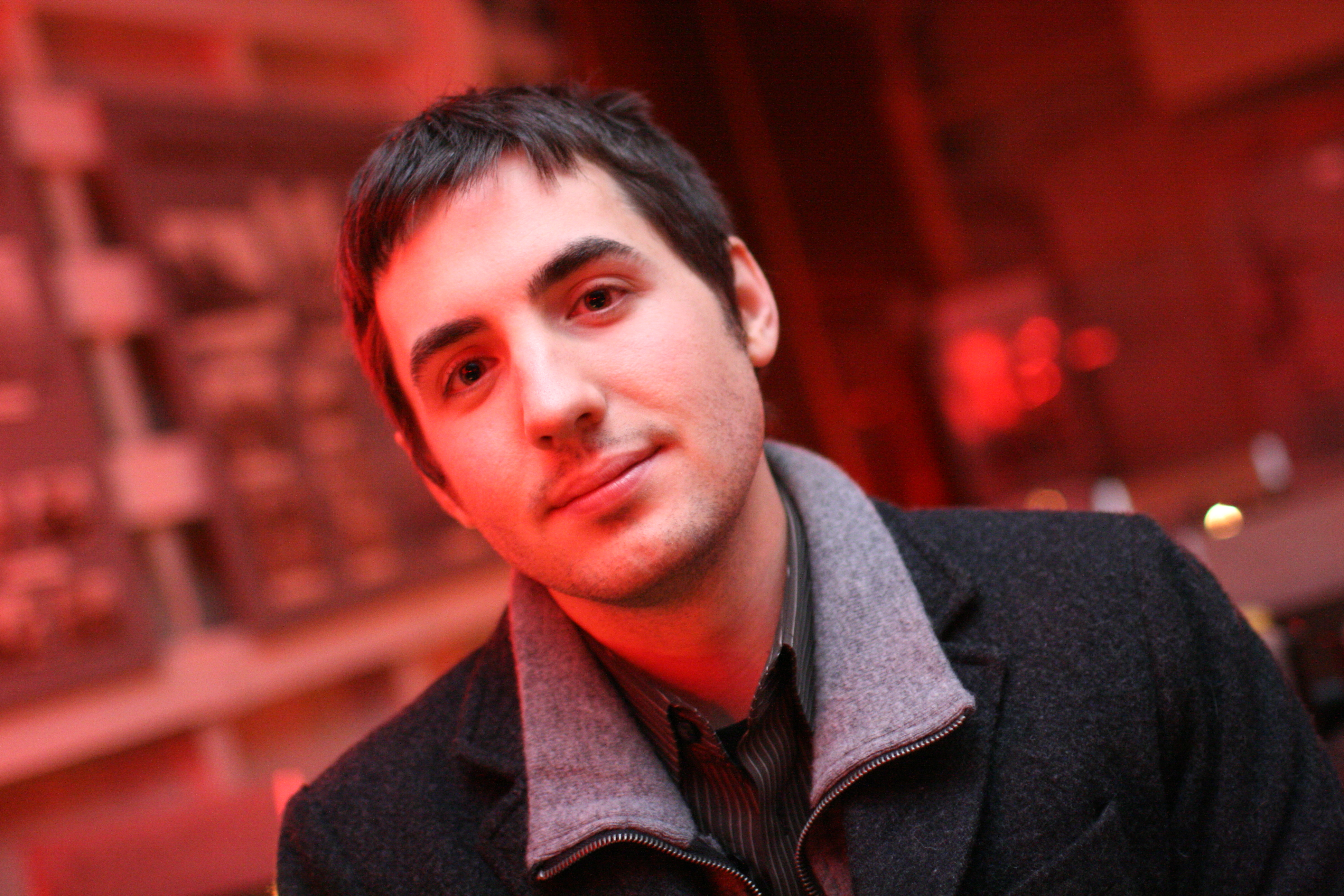 Worlds Collide Onboard the S.S. Jeremiah O’Brien November 18, 2007. Read the story on .